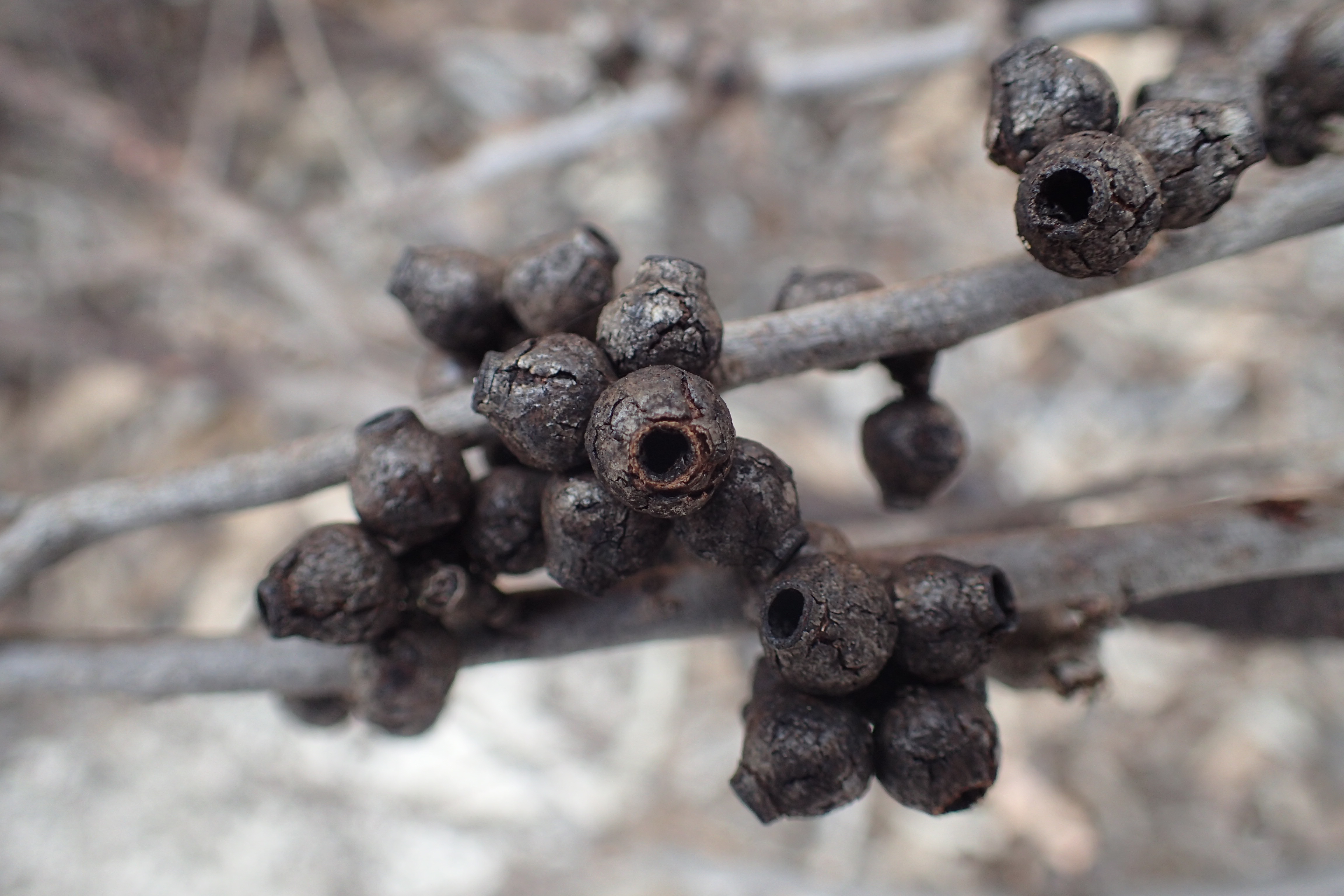 Fruit of Eucalyptus brockwayi in helms Arboretum, near Esperance, W.A.